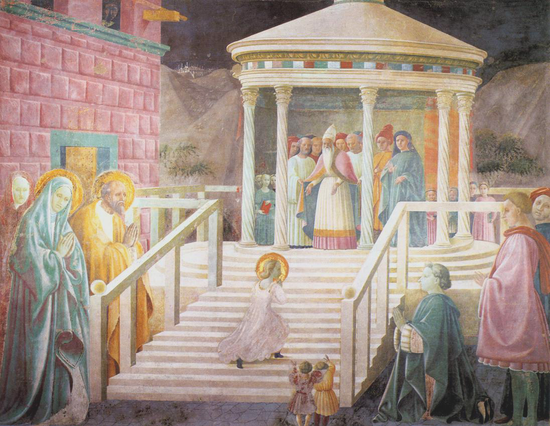 UCCELLO, Paolo Mary's Presentation in the Temple Fresco, 335 x 420 cm Duomo, Prato